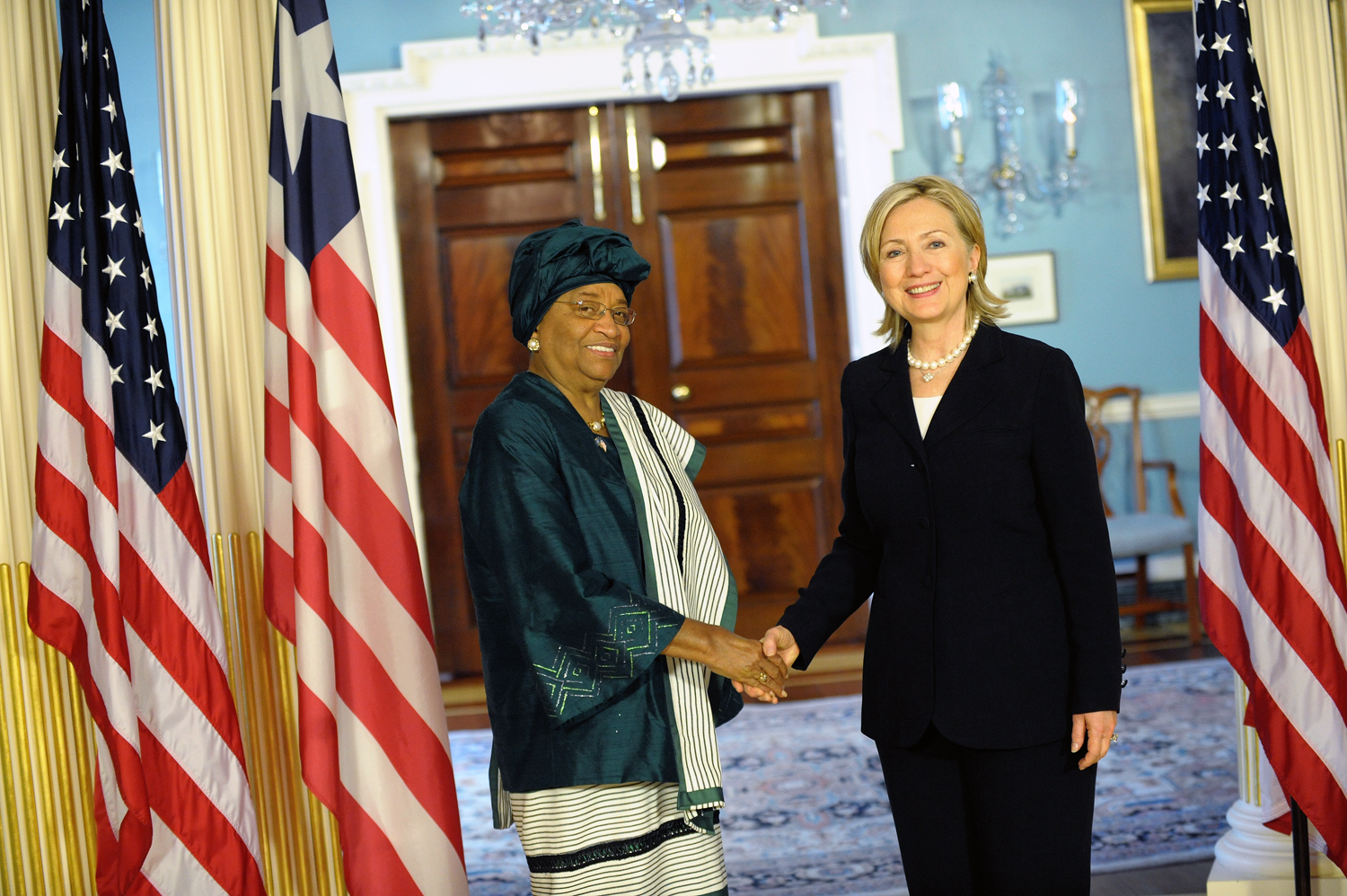 U.S. Secretary of State Hillary Rodham Clinton hosts a bilateral meeting with Liberian President Ellen Johnson Sirleaf at the U.S. Department of State in Washington, D.C., on May 27, 2010. [State Department Photo/Public Domain]